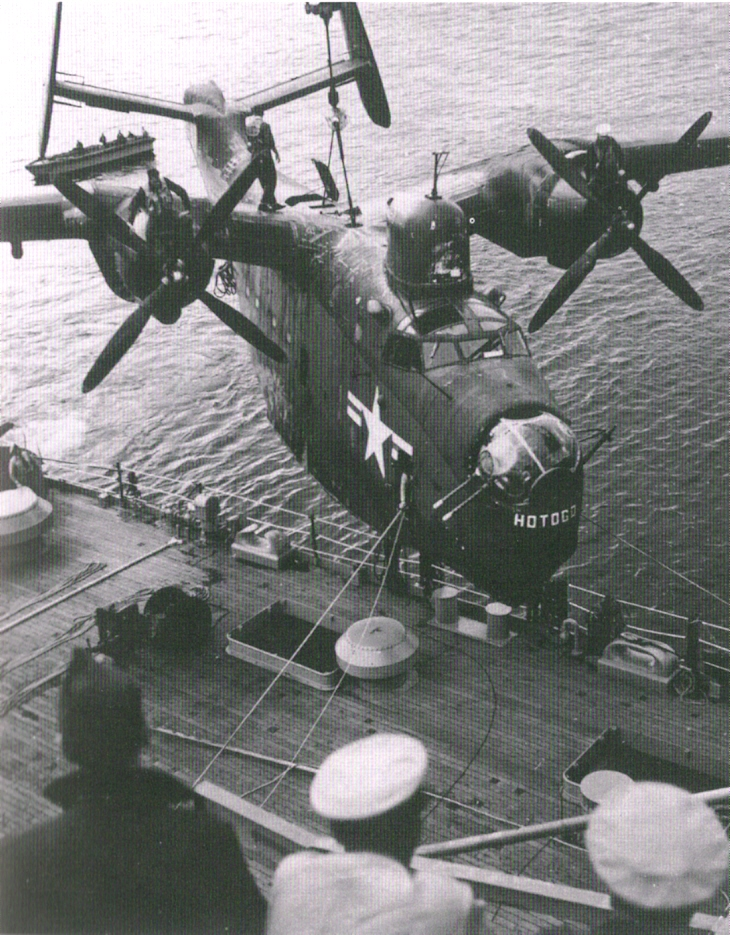 A United States Navy PBM Mariner flying boat of Fleet Air Wing 6 is hoisted aboard the U.S. Navy seaplane tender USS Curtiss (AV-4) after returning from a mine-hunting patrol off North Korea during the Korean War.